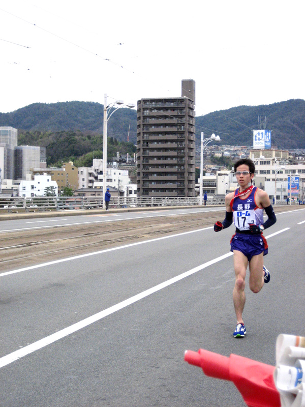 The All-Japan Interprefectural Ekiden Championships 7th Leg Sato, the runner of Nagano Prefecture